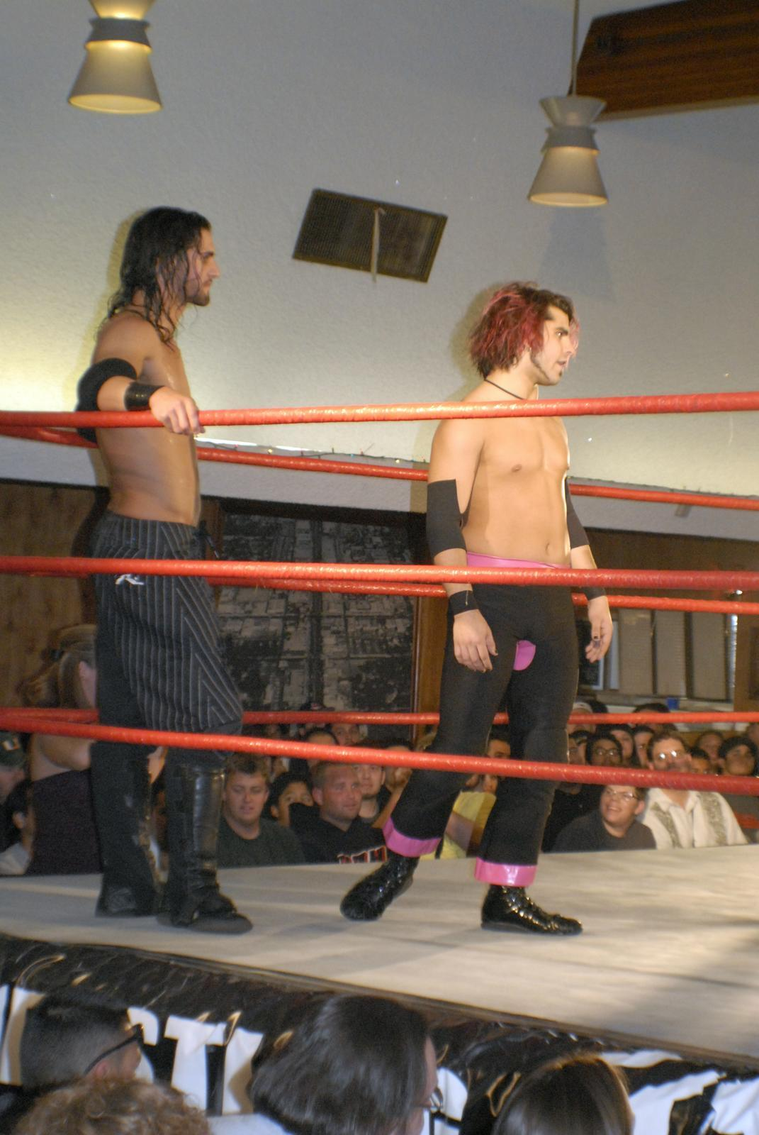 Professional wrestler Tyler Black (left) and Jimmy Jacobs (right) in the ring prior to a tag team match at Pro Wrestling Guerrilla's All Star Weekend - Day 1 show on June 13, 2005.